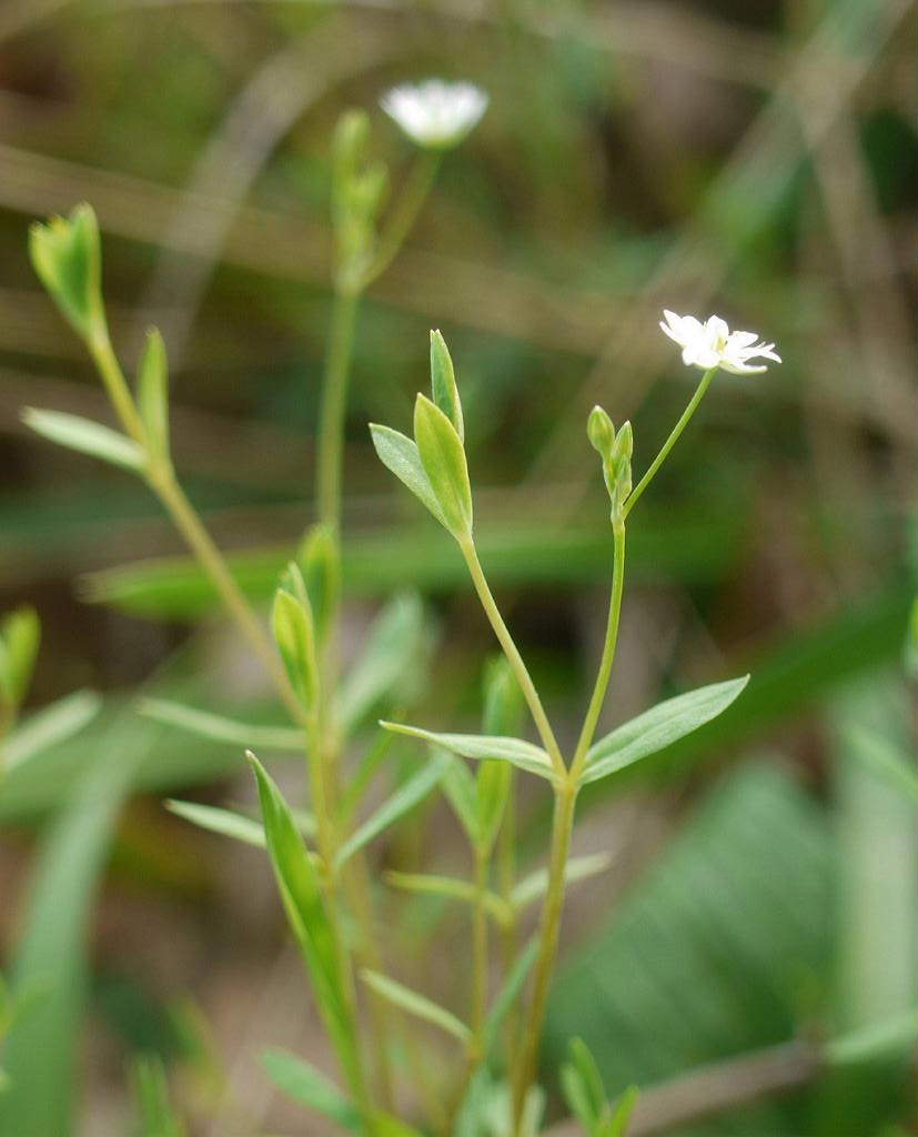 Stellaria alsine Grimm var. undulata (Thunb.) Ohwi(Caryophyllaceae)